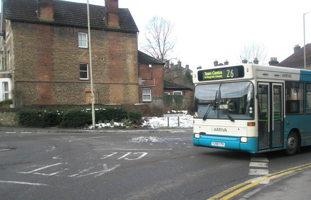 26 bus turning from Guildford Park Road into Bridge Street